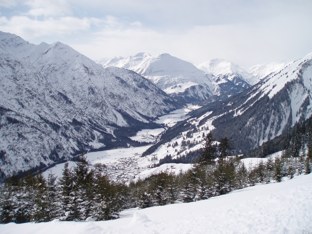 Holzgau in Lechtal/ Tyrol/Austria. Mountains from left to right: Zwölferkopf 2310m, Schmalzgrubenspitze 2643 (background), Fleischkopf 2472m , Schwarzer Kranz 2494m, Pimig 2406m, Lärchspitze 2393m, Rappenspitze 2472m (background), front right slopes of the Gumppegg 1747m